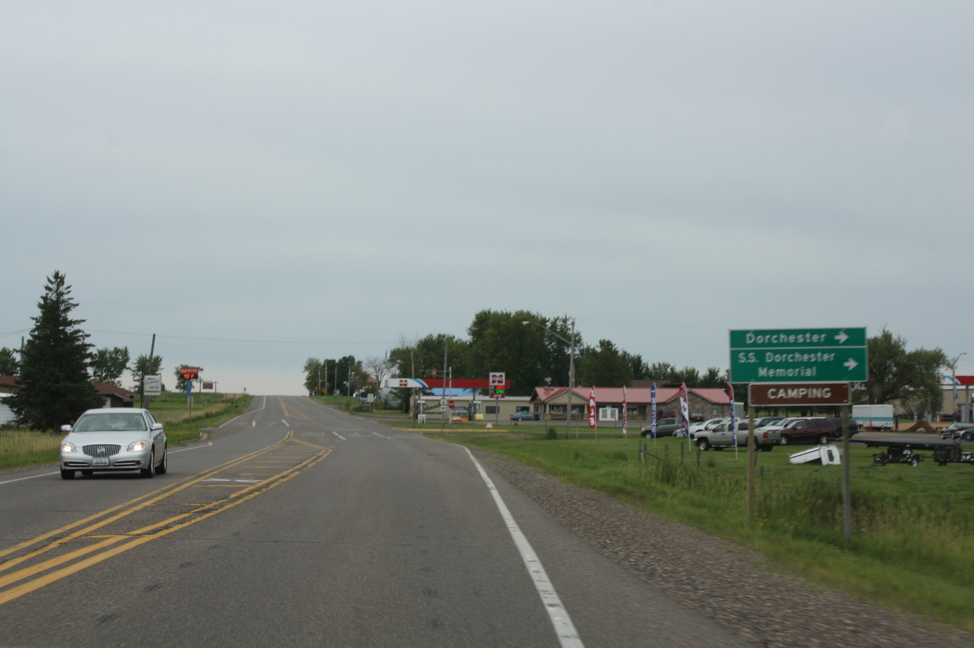 Looking south in downtown Dorchester, Wisconsin on Wisconsin Highway 13.